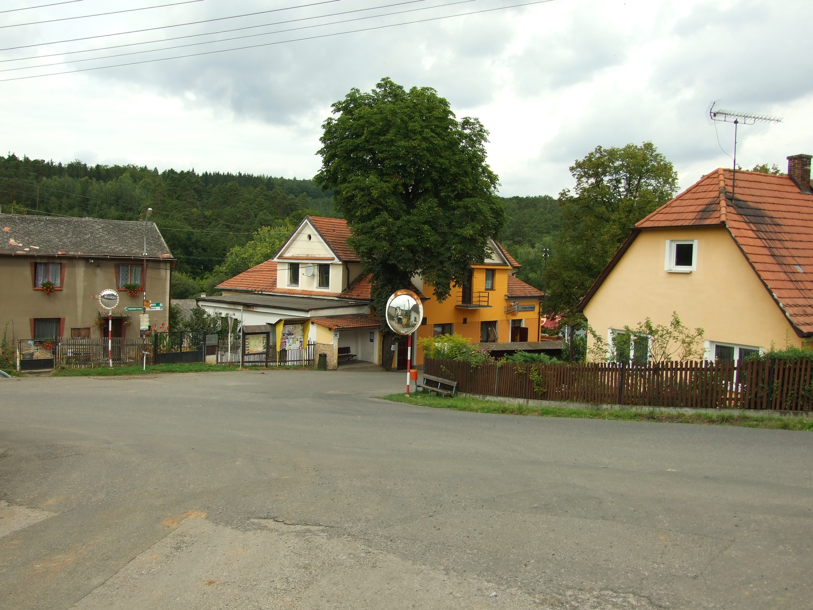 Village Nový Jáchymov in Central Bohemian Region, CZhelp This photograph was taken within the scope of the 'Czech Municipalities Photographs' grant.